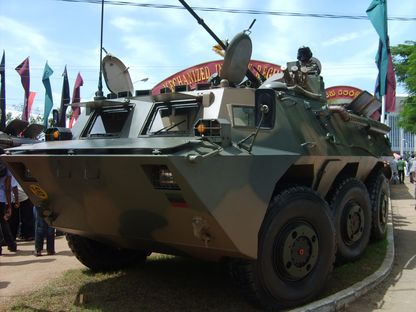 A WMZ551 of the Sri Lanka Army Mechanized Infantry Regiment on display at the Army 60th Anniversary Exhibition